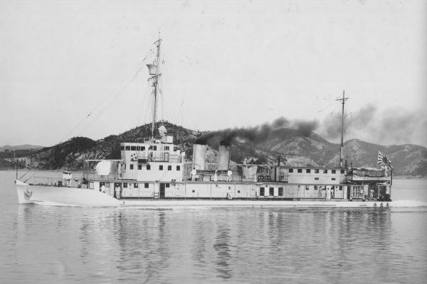 Japanese gunboat ATAMI(Atami-class), near Mitsui Tama Shipyard, Setouchi Sea.